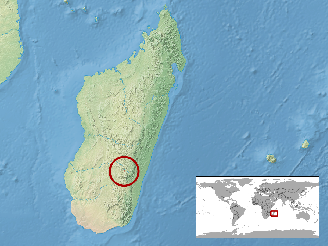 geographic distribution of Phelsuma gouldi (Native: Madagascar)